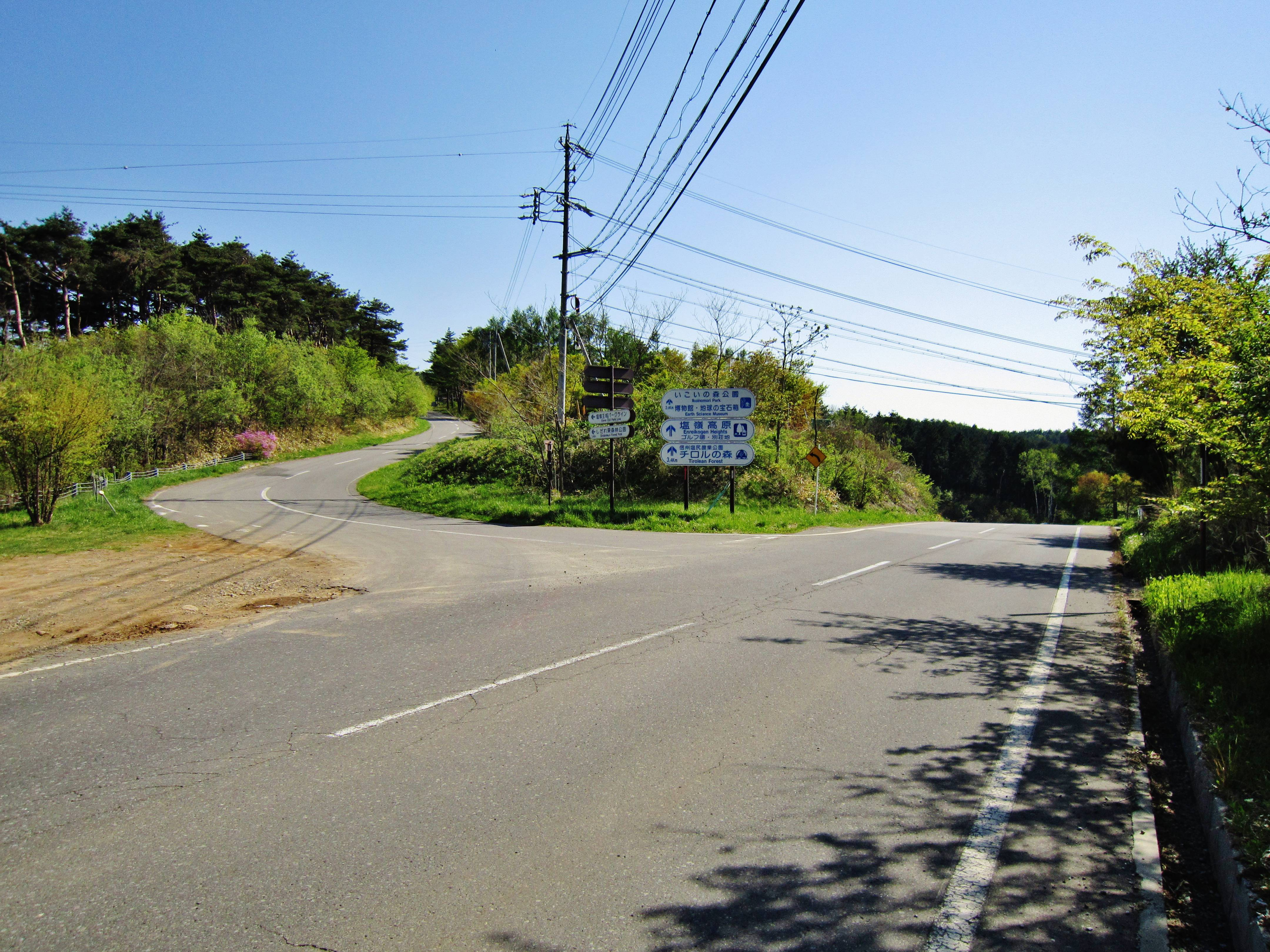 Kattsuru Pass.